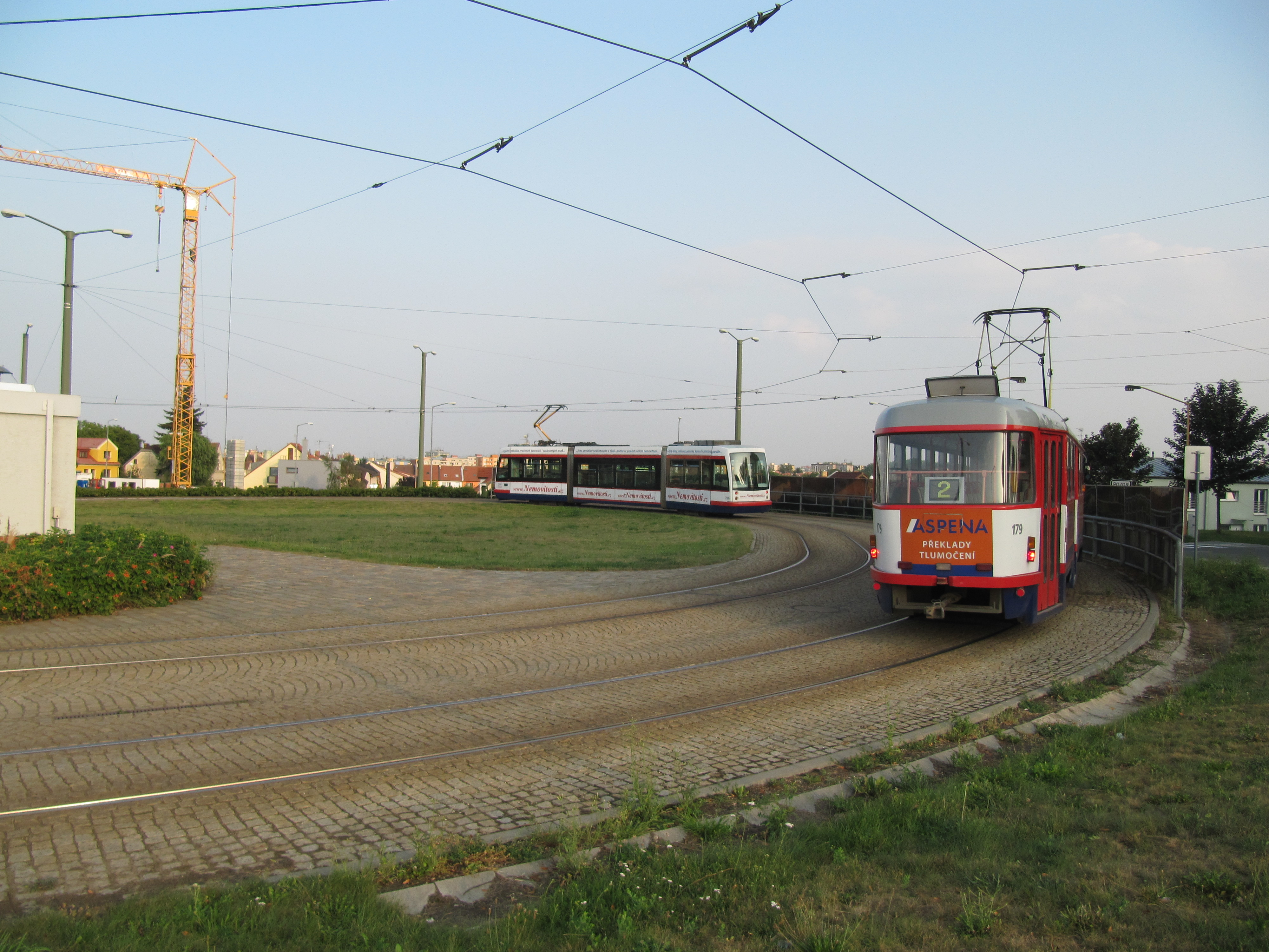 Olomouc, Czech Republic, part Topolany. Tram terminus.